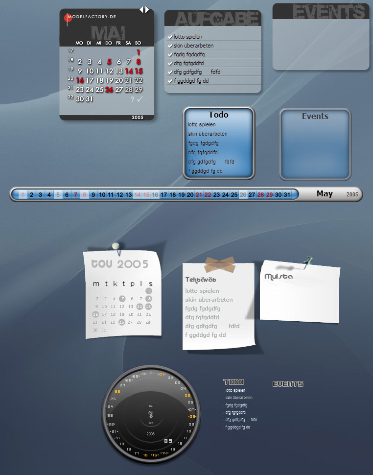 Examples of skins for Rainlendar (under Windows)